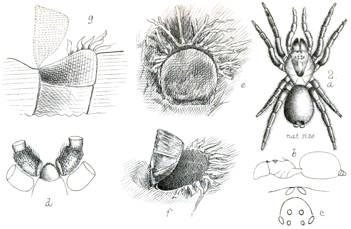 2 Idiops colletti O.P.-Cambridge = Idiops crassus Simon, 1884, ♀ (a = adult from above, b = body of adult from left lateral, c = eye pattern from dorsal, d = mouthparts from ventral, e = closed trapdoor nest entrance, f = open trapdoor nest entrance, g = transverse section of upper part of nest)